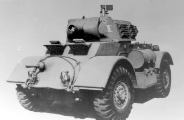 T17E3 armored car.